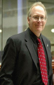 Photo of Assemblyman Bob Beers